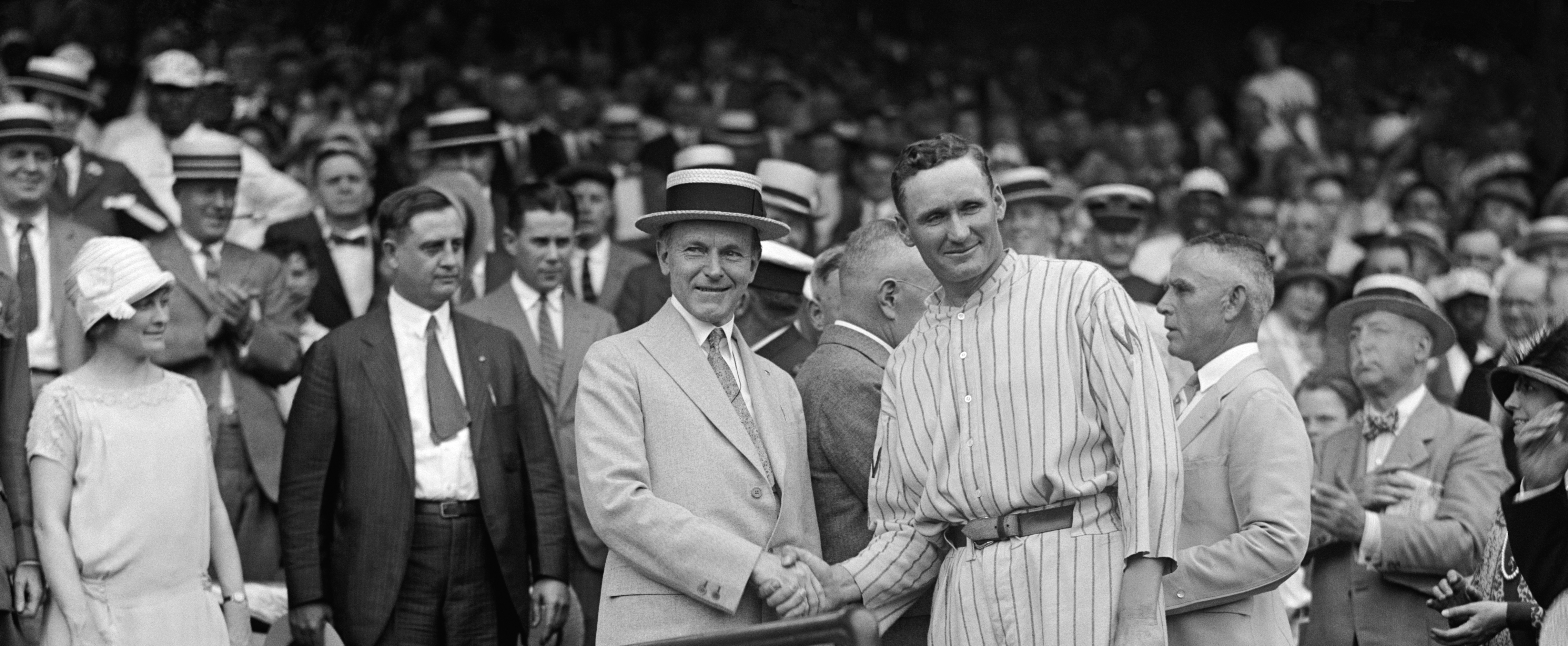 US President Calvin Coolidge and Washington Senators pitcher Walter Johnson shake hands, presenting the "American League diploma" for the Senators winning the AL in 1924.